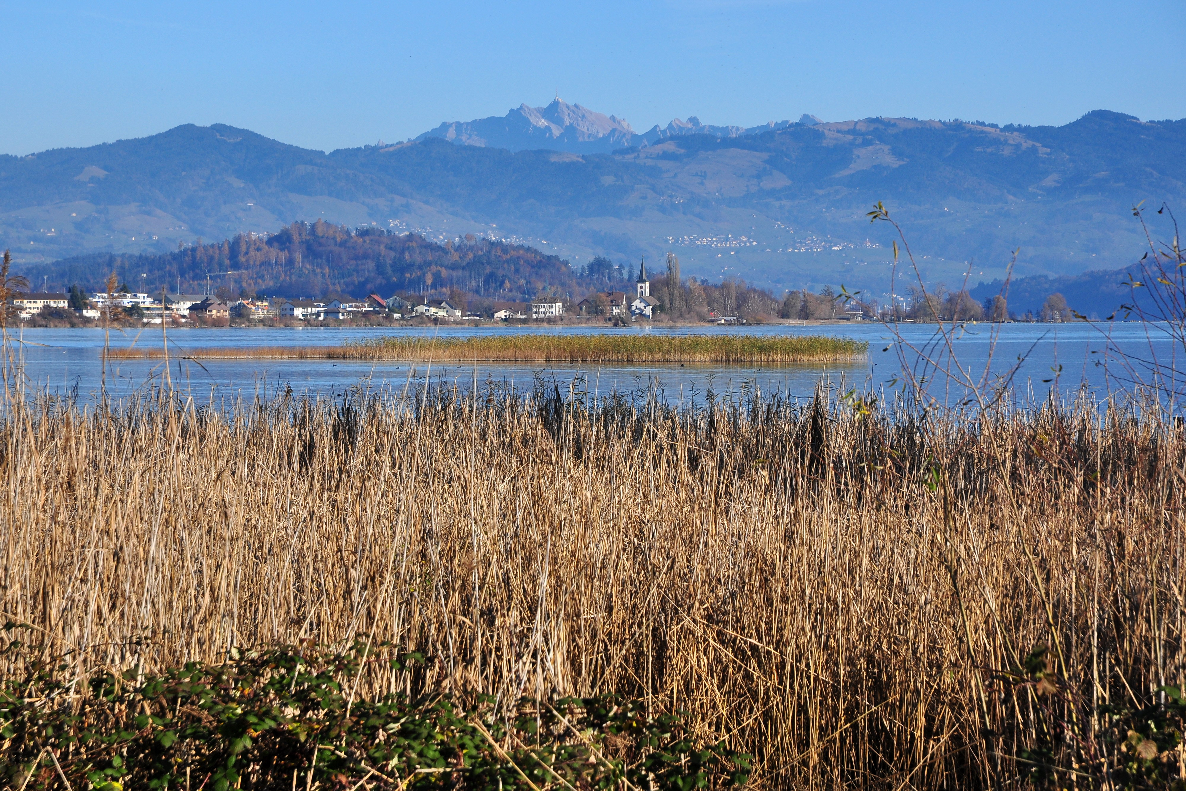 Säntis as seen from Holzbrücke (wooden bridge) between Rapperswil and Hurden in Switzerland, crossing Obersee (upper Lake Zurich), Busskirch in the foreground.